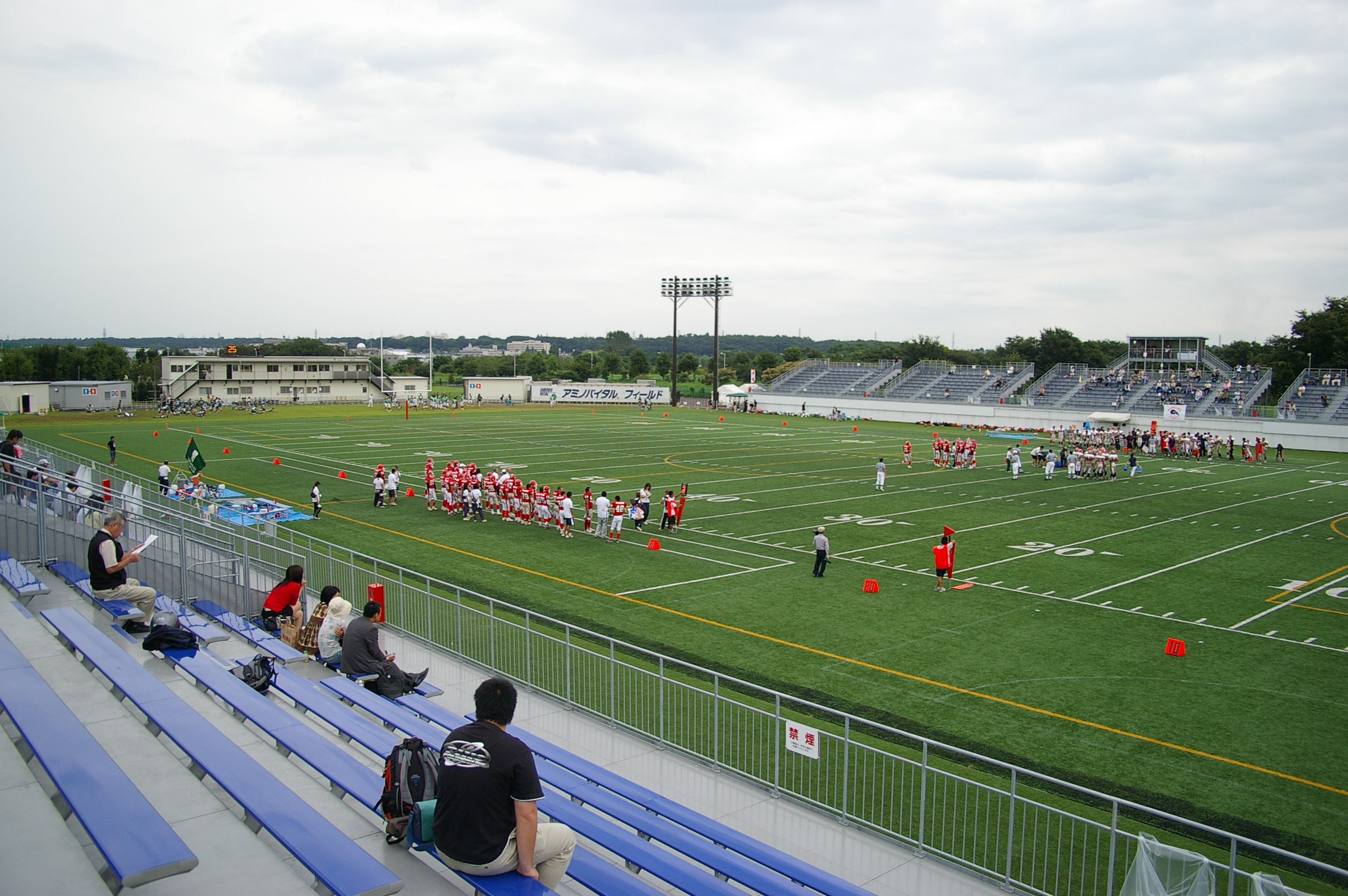 AminovitalField. This is Ajinomoto stadium's sub ground. Chofu City,Tokyo metro,Japan